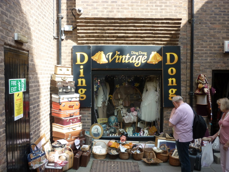 Ding Dong Vintage at The Gates, Durham